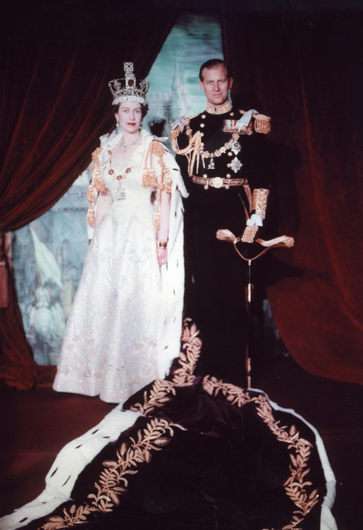 Queen Elizabeth II and Prince Philip, Duke of Edinburgh. Coronation portrait, June 1953, London, England.